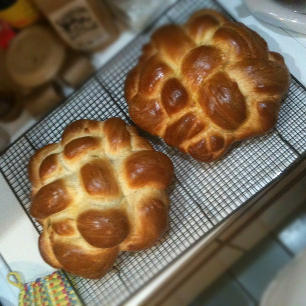 Round Challah